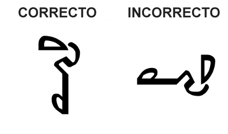 Khmer symbol at Wikipedia/2.0 2010 Logo. Correct and incorrect position.